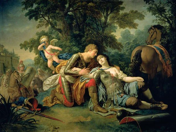 Tancred and Clorinda